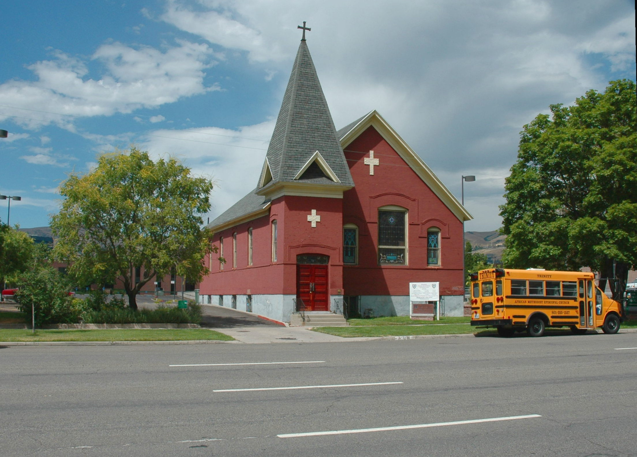 The Trinity A.M.E. Church, a historic church in Salt Lake City, Utah, United States.